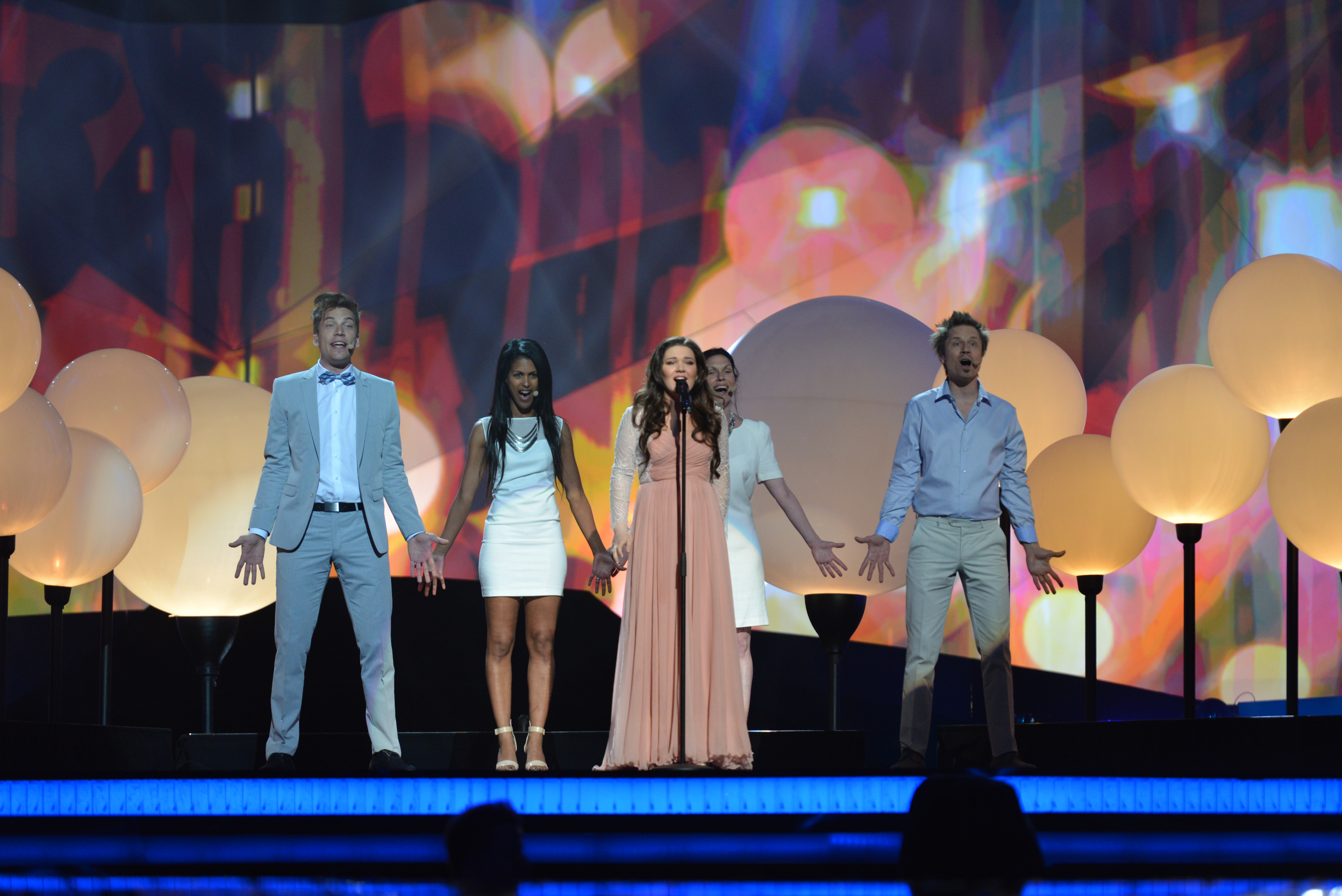 Dina Garipova representing Russia with the song "What If" during the first dress rehearsal of the first semi final of the Eurovision Song Contest 2013 in Malmö. (Help translate this text)